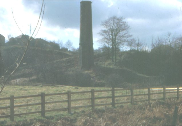 Photo taken by Geotek, old steam engine chimney at Wet Earth Colliery, Clifton, Salford, UK